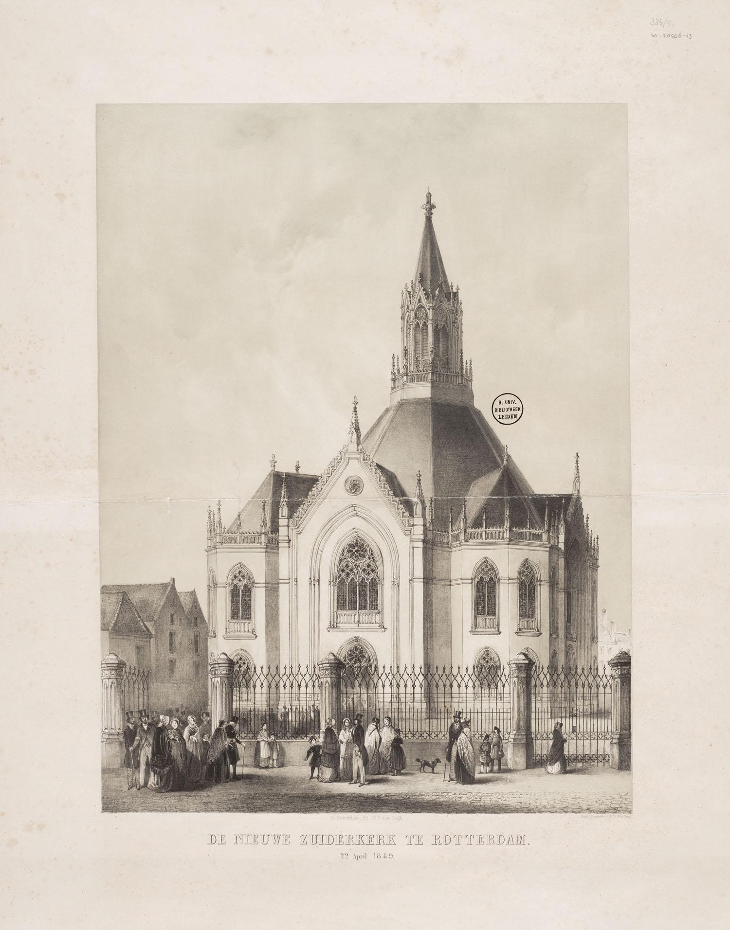 The new Zuiderkerk in Rotterdam 22 April 1849.